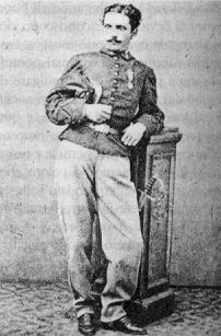 Giuseppe Cesare Abba, from [1]; photo taken on year 1861